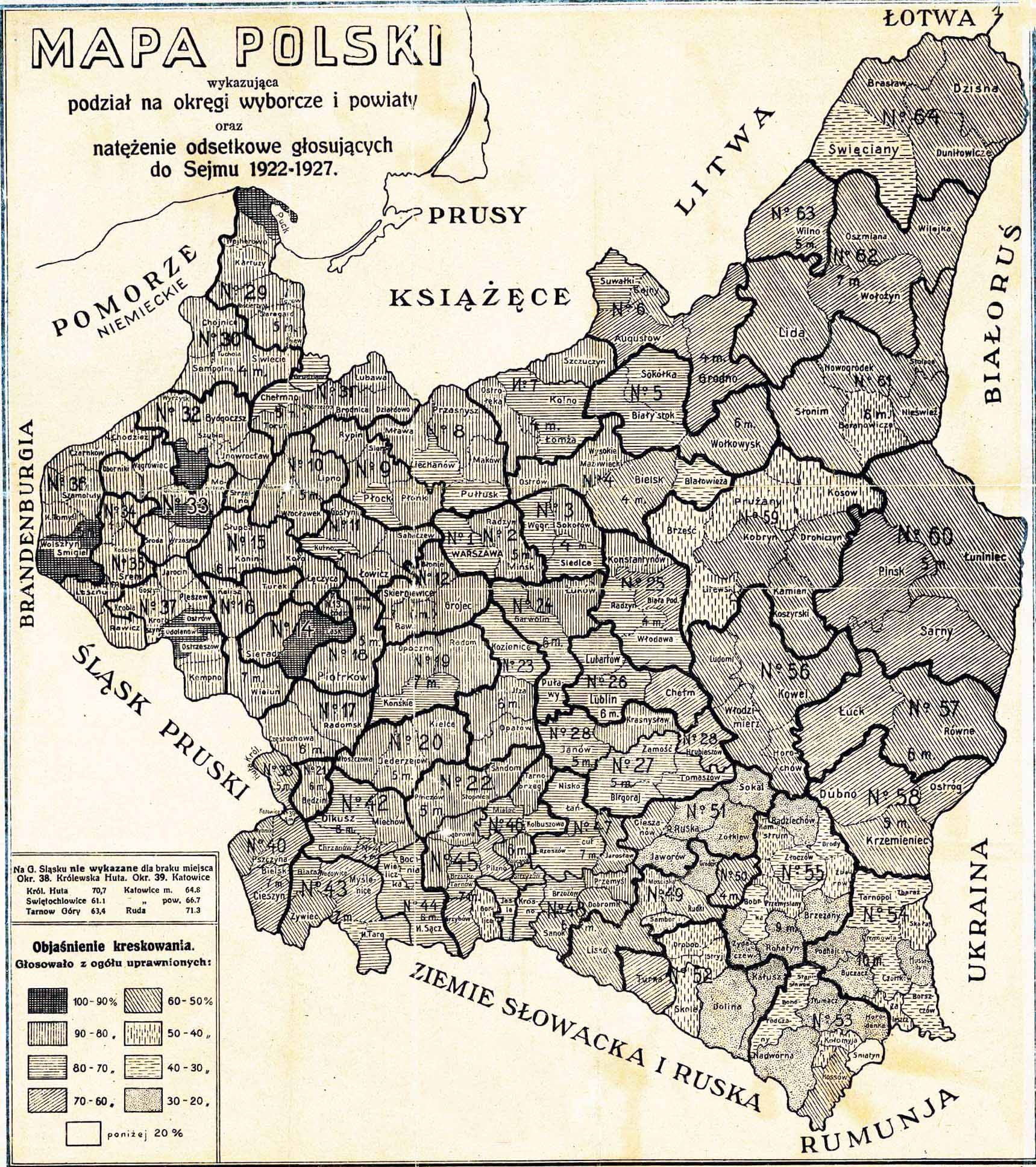 Map of Poland 1922 with borders of constituencies and voter turnout in elections 1922